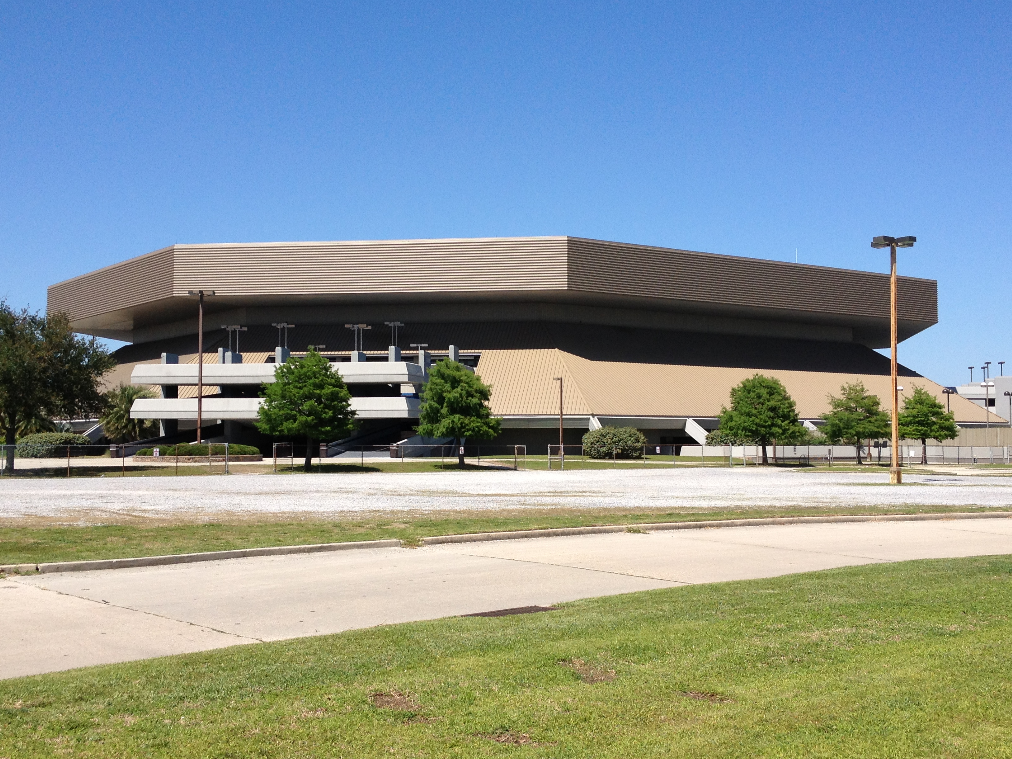 UNO Lakefront Arena-New Orleans